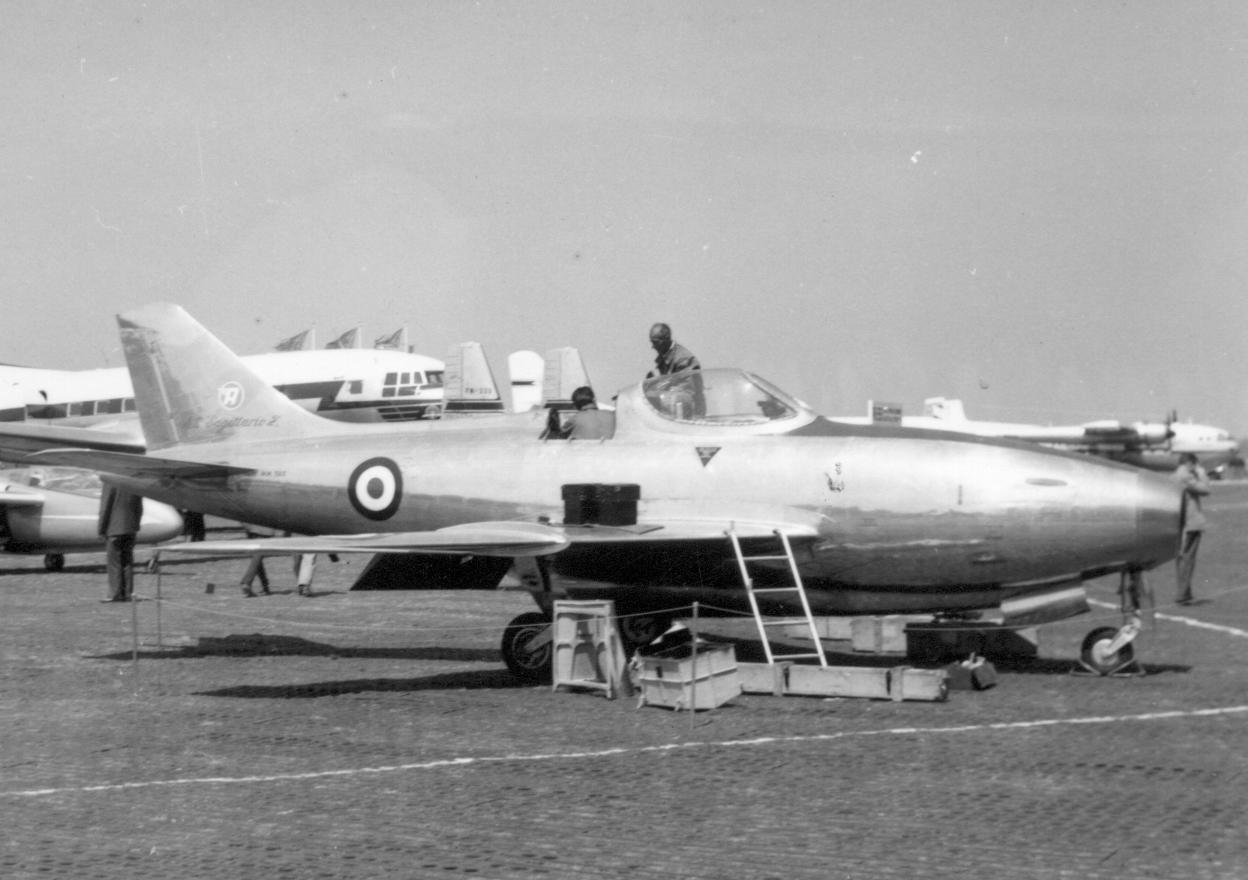 Ambrosini (Aerfer) Sagittario 2 MM560, with swept wings, at the Paris Air Salon